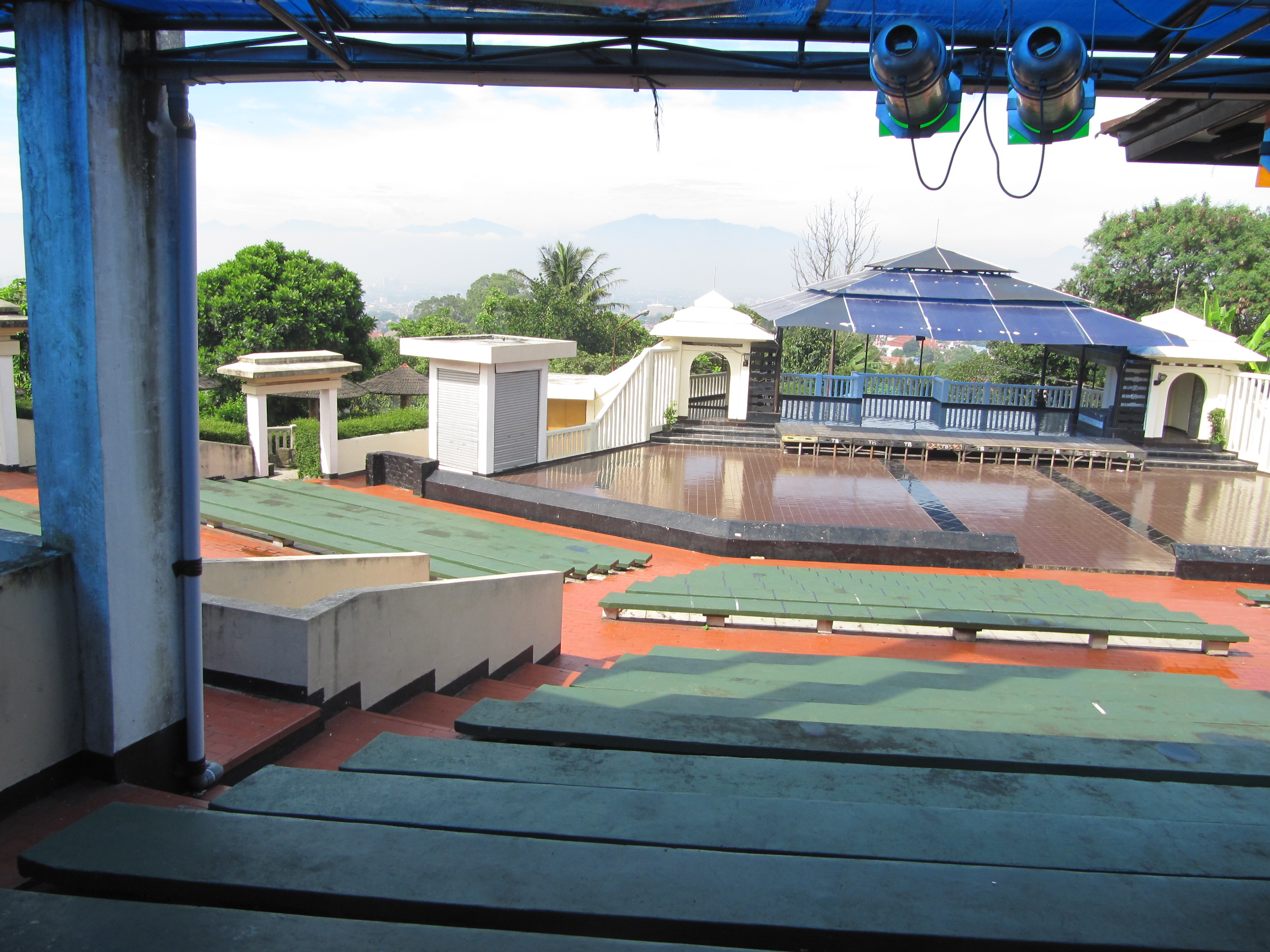 Theehuis Dago